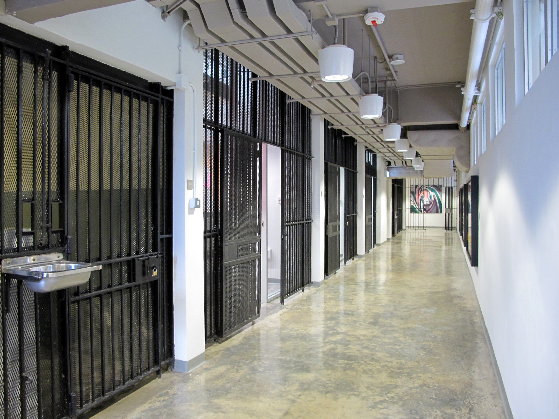 North Kowloon Magistracy Lobby Stairs